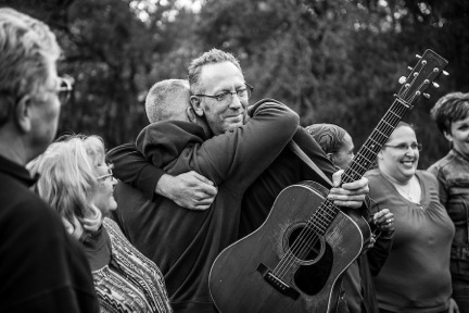 Photographer: Stacy L. Pearsall